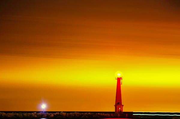 Break Water Light, Muskegon, Michigan, USA CC license applies for original wikipedia file (600 Ã— 397 pixels, file size: 228 KB, MIME type: image/jpeg) only